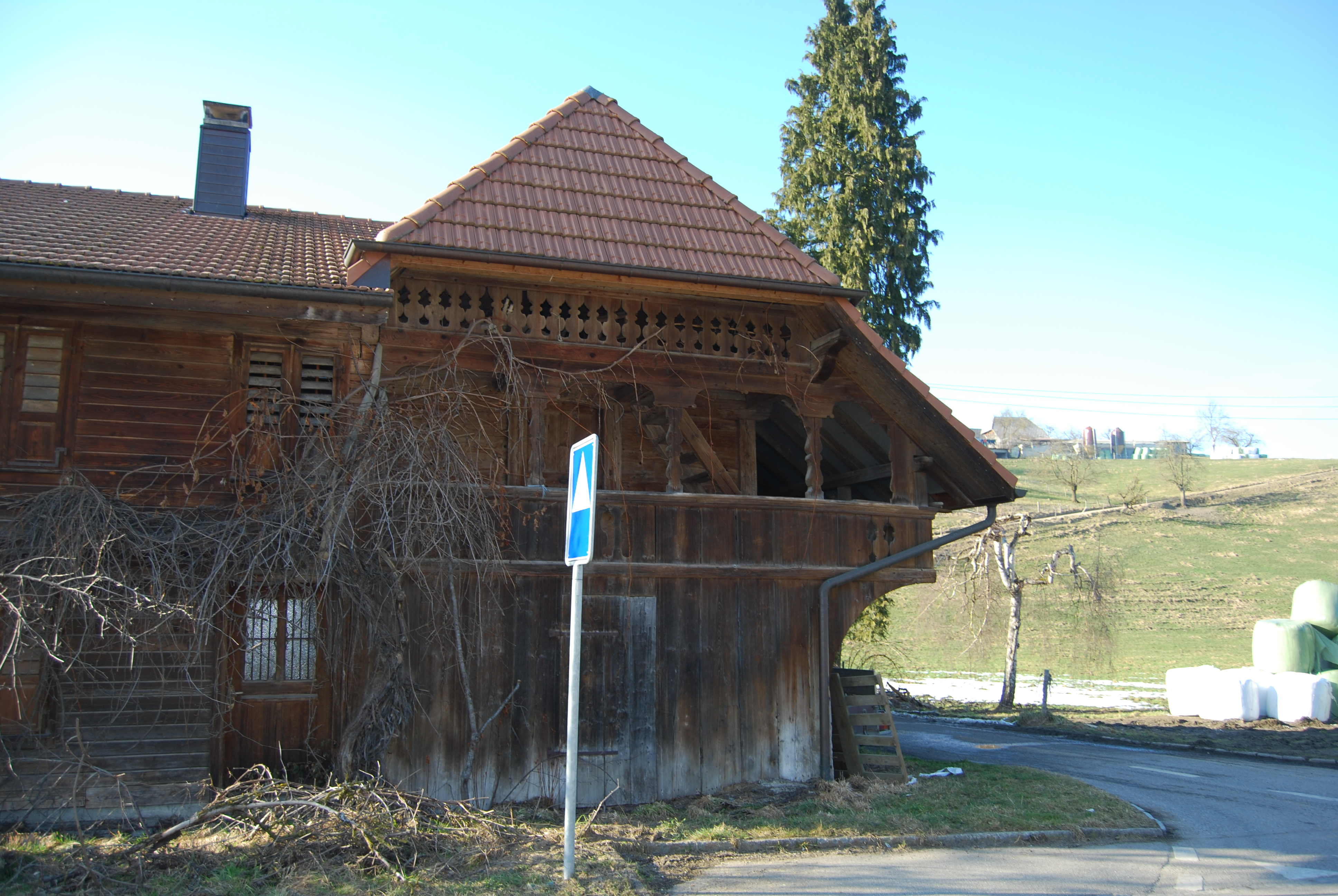 Walterswil, canton of Bern, SwitzerlandEsperanto: Walterswil, Kantono Berno, Svislando